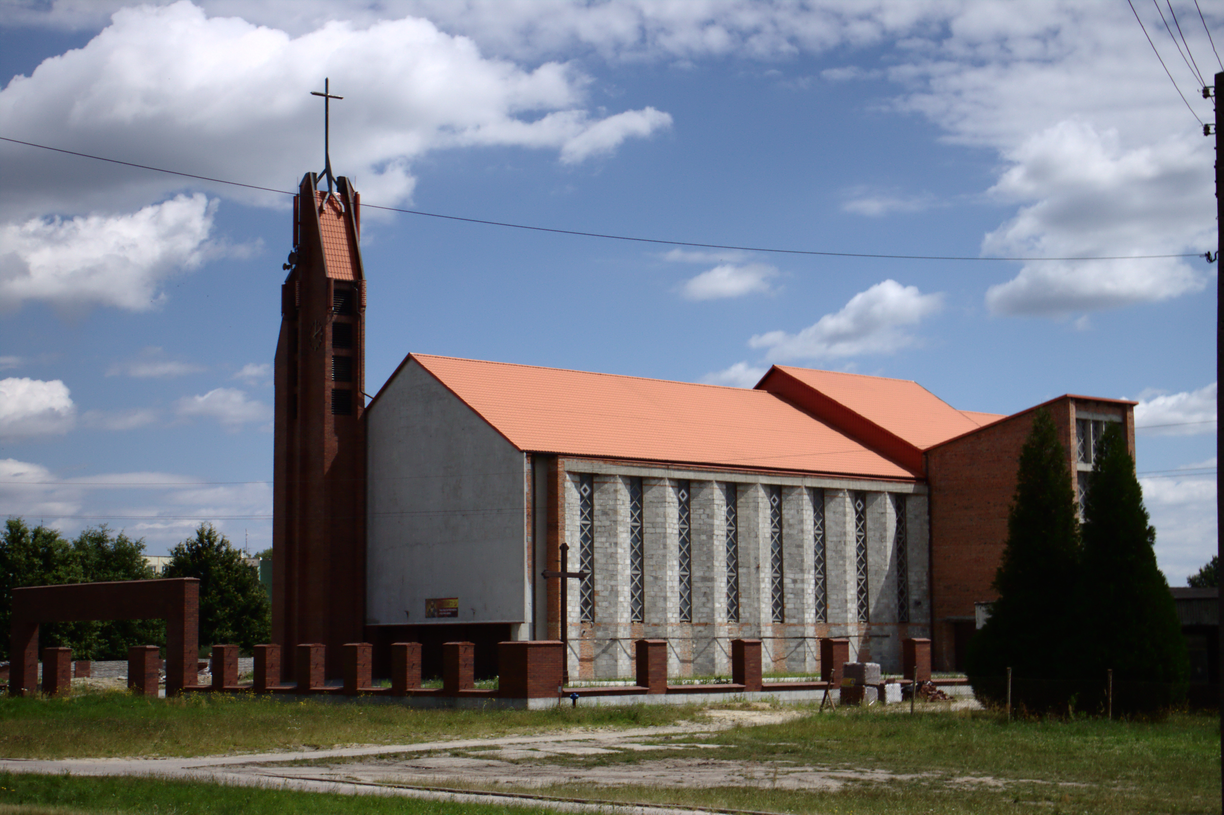 Church of st. Maximilian Kolbe in Jelcz-Laskowice, Lower Silesia, Poland